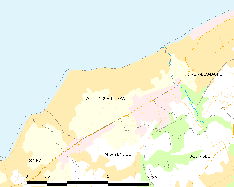 Map of French municipality Anthy-sur-Léman